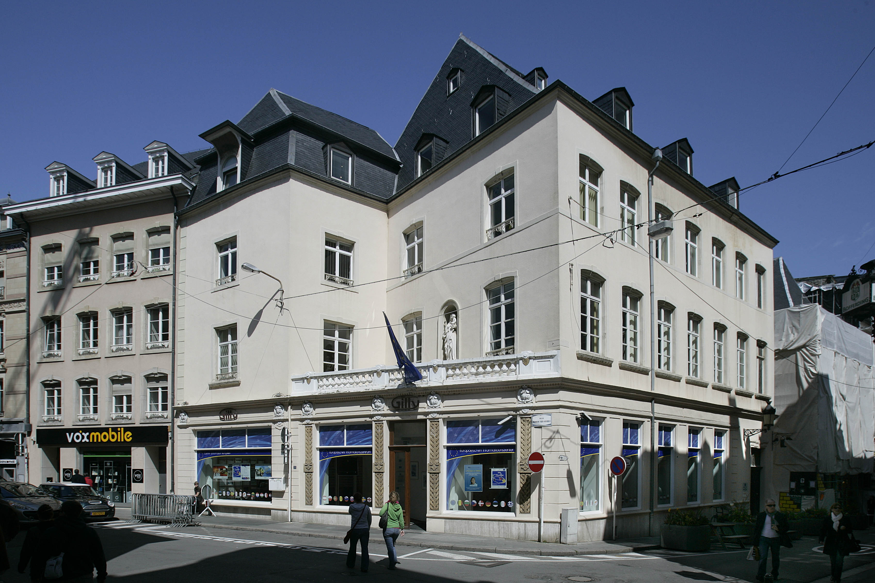 The House of Europe at Luxembourg-city, hosting representation of the European Commission and representation office of the European Parliament.